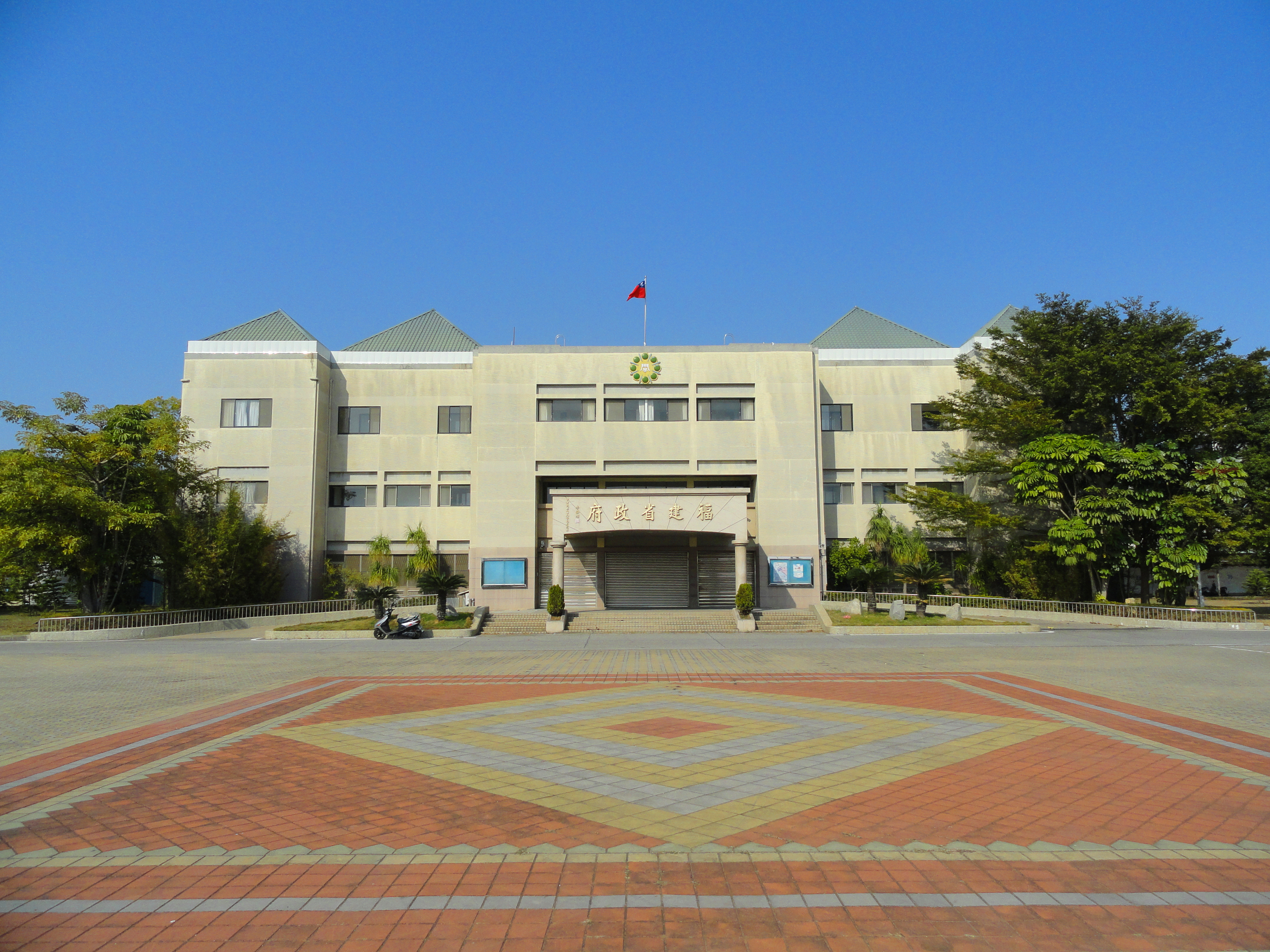 Fujian Provincial Government, Jincheng Township, Kinmen County, Fujian Province, Republic of China中文（中国大陆）: 在金门办公的中华民国福建省政府